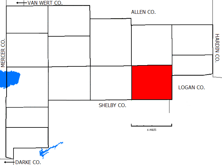 Taken from the Auglaize County map provided by Prinzwilhelm, who claimed that the original map was "self-created based on U.S. Government Census Maps and Date."